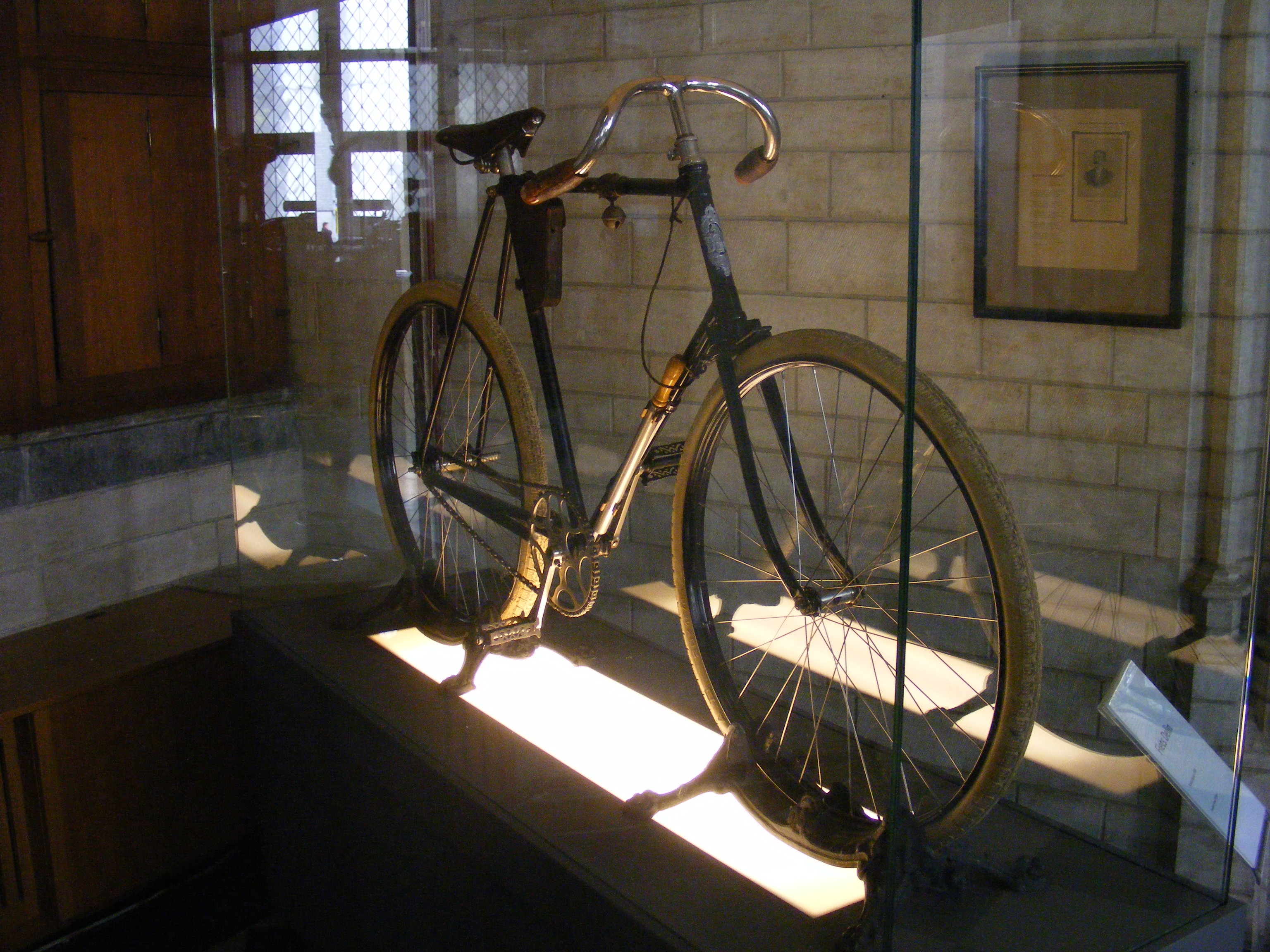 Delin Bicycle of Ca. 1890 made in Leuven (Louvain, Belgium). Pictured in City Hall of Leuven where the bicycle was shown as part of their "Helden" (Heroes) exposition of the heritage of Leuven